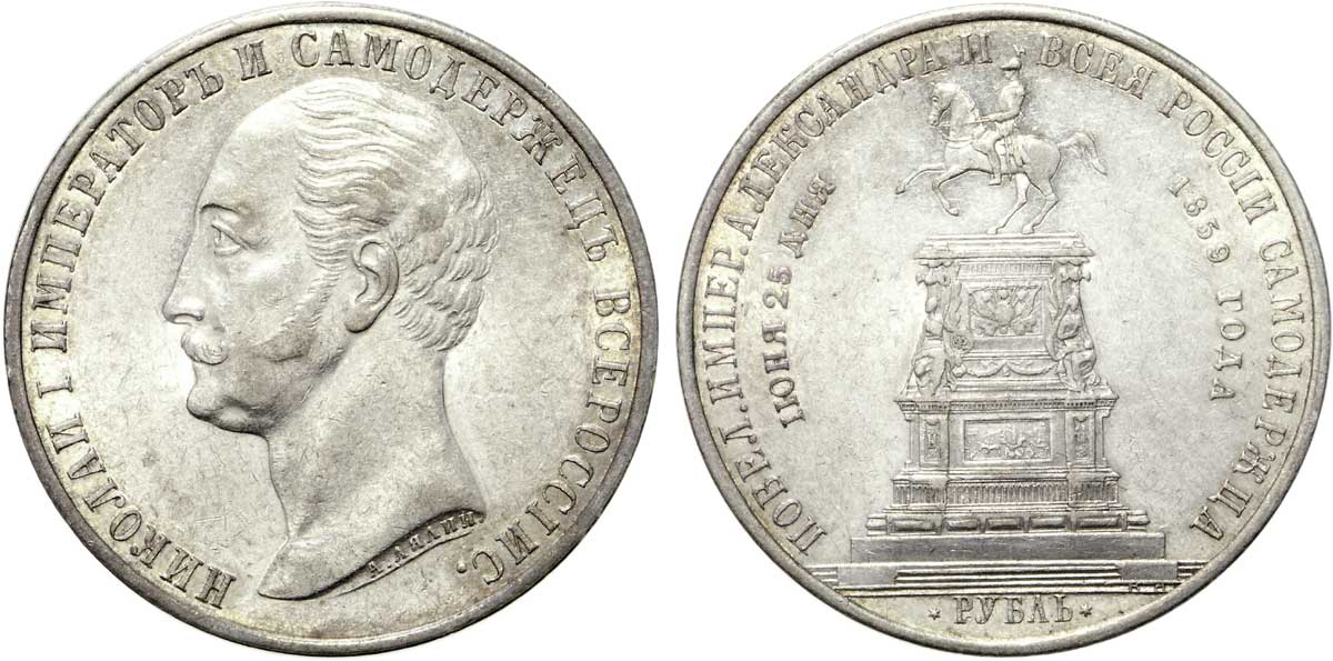 Rouble commémoratif pour le monument de Nicolas Ier et effigie d'Alexandre II, 1859